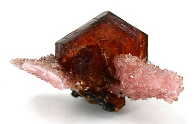 Rhodochrosite, Shigaite Locality: N'Chwaning II Mine, N'Chwaning Mines, Kuruman, Kalahari manganese fields, Northern Cape Province, South Africa (Locality at ) Size: miniature, 3.2 x 2.5 x 1.5 cm SHIGAITE on RHODOCHROSITE A beautiful specimen, complete 360 degrees, hosting a translucent 2 cm shigaite perched on sparkly rhodo crystals! This is a piece of major importance in the world of rarities, and Charlie felt that for combination of size and aesthetics it was the best miniature from the find of the early 1980s that he could keep in his suite of personal Kalahari rarities of miniature size - this was in fact the pride of the collection, I'd say. it is NOT the fragile, thin, disclike crystal you expect to see form looking at the recently mined material. it is very thick, sturdy, and easily packed for shipping. Although a "toenail" size, it is important enough to take its place in a miniatures or rarities suite of stature, and is really irreplaceable.